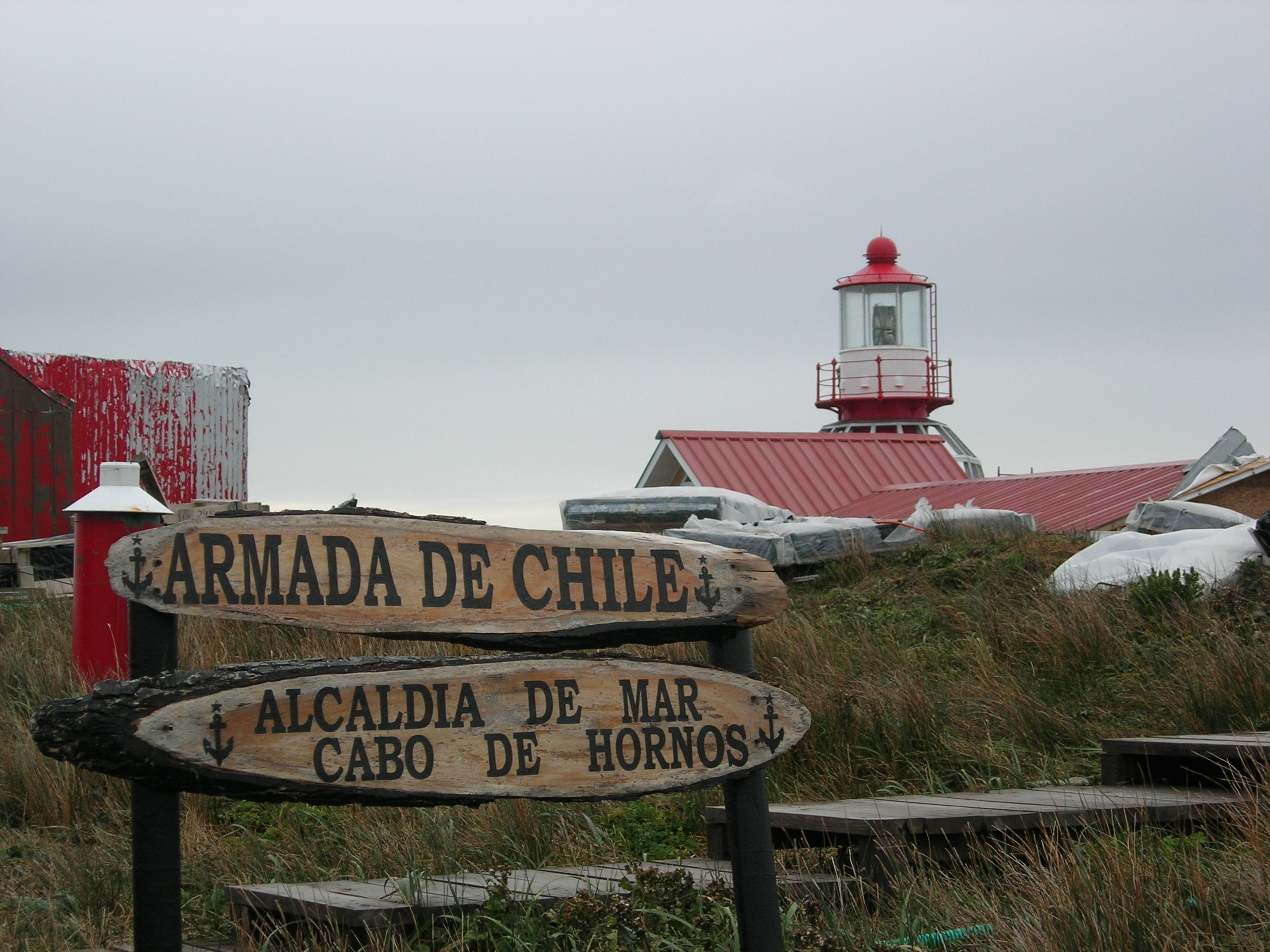 Description = Phare de l'ile Horn ( Chili ) Source =Photo taken by Remi Jouan Date =Avril 2006 Author =Remi Jouan